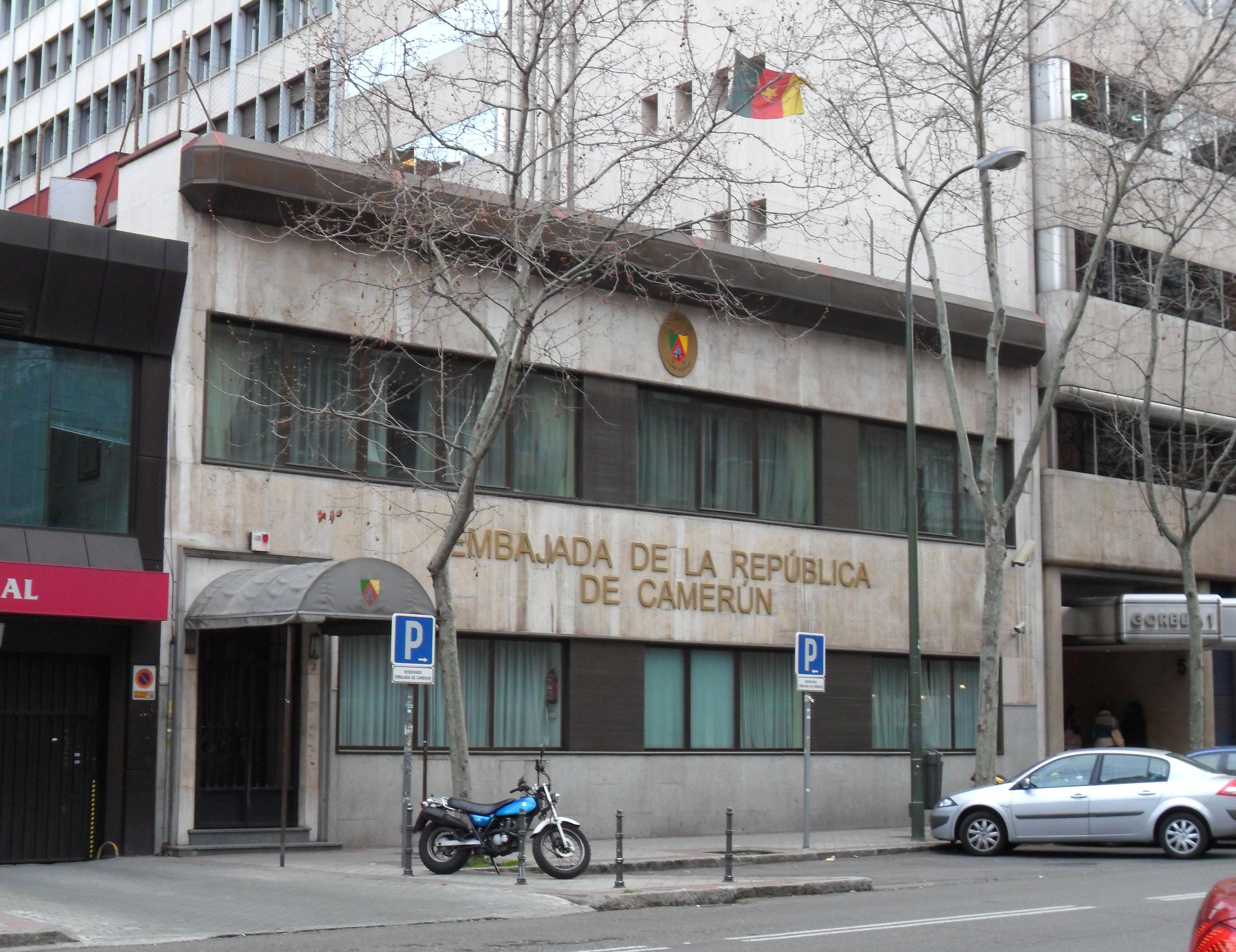 Seat of the Cameroonian Embassy in Madrid (Spain), at 3rd Calle de Rosario Pino (street) in Tetuán district.